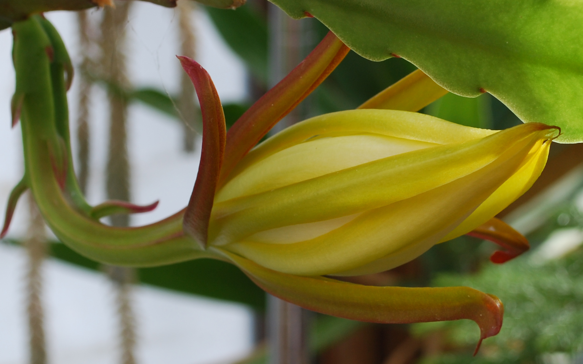 Flower bud of Epiphyllum laui at the point just prior to opening.